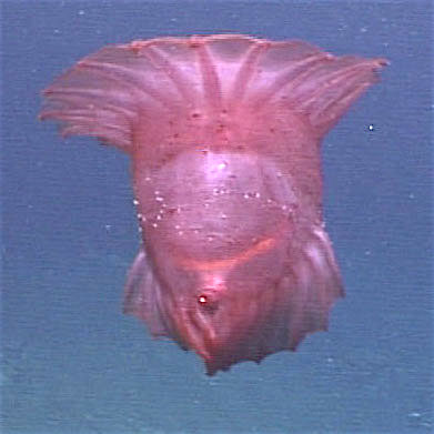 The pelagic sea cucumber Enypniastes, swims so gracefully above the mud bottom that they are often confused with jellyfish.